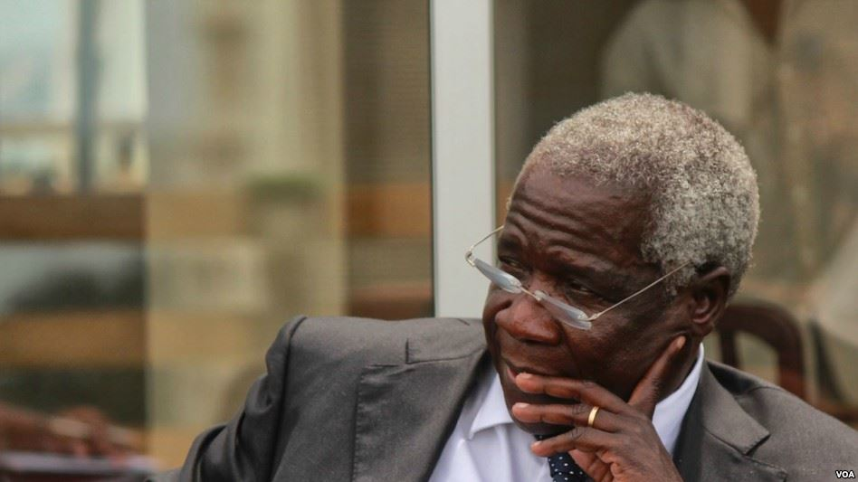 Afonso Dhlakama